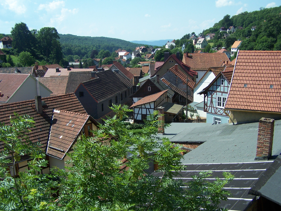 The lower site of the village Steinbach.